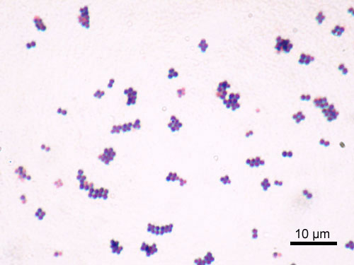 microscopic image of Staphylococcus aureus (ATCC 25923). Gram staining, magnification:1,000.